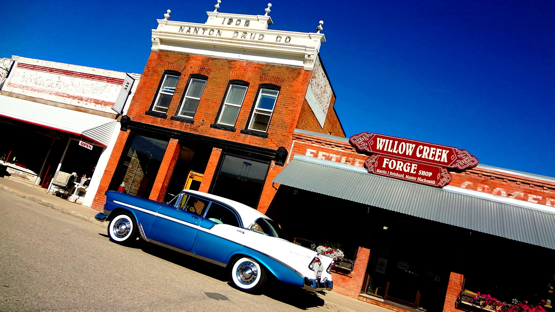 Main Street, Nanton September 2014. A vintage car is parked outside the old Nanton Drug Co. and by Feathrstones Grocery and Danoon Meat Locker.